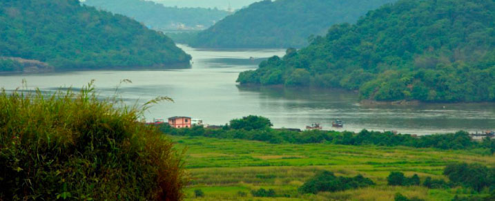 Scenic view along Ghodbunder Road, Mumbai. From Hiranandani Estate.